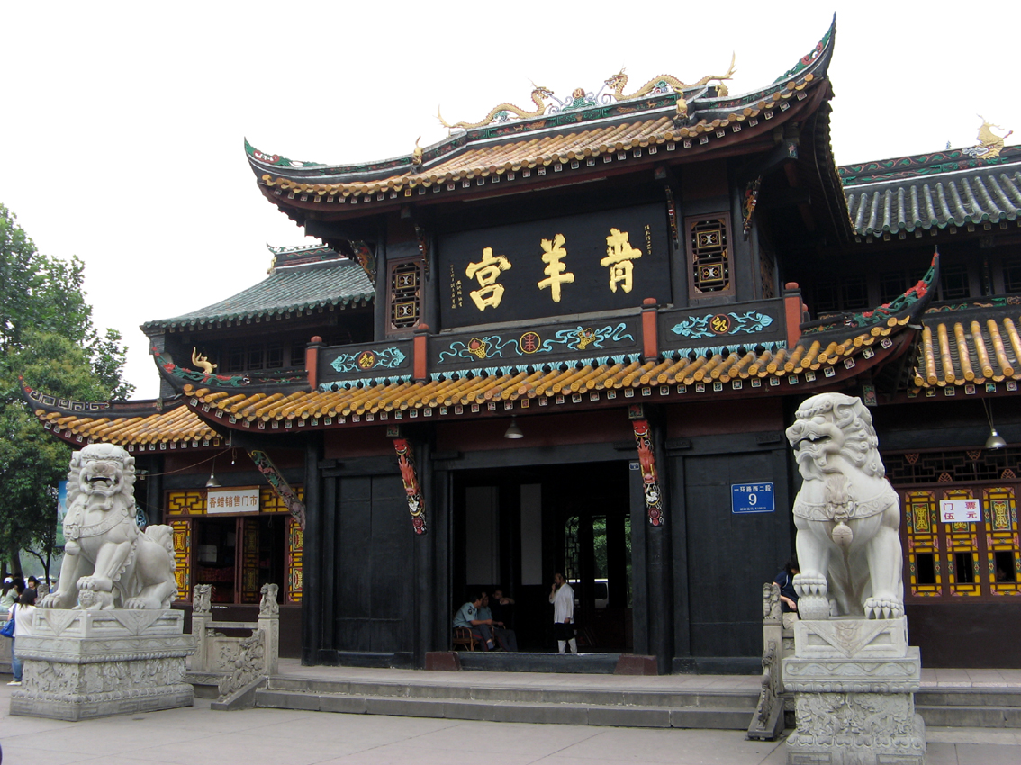 Qingyang Palace in Chengdu, China Photo By Dice 2006.06.21